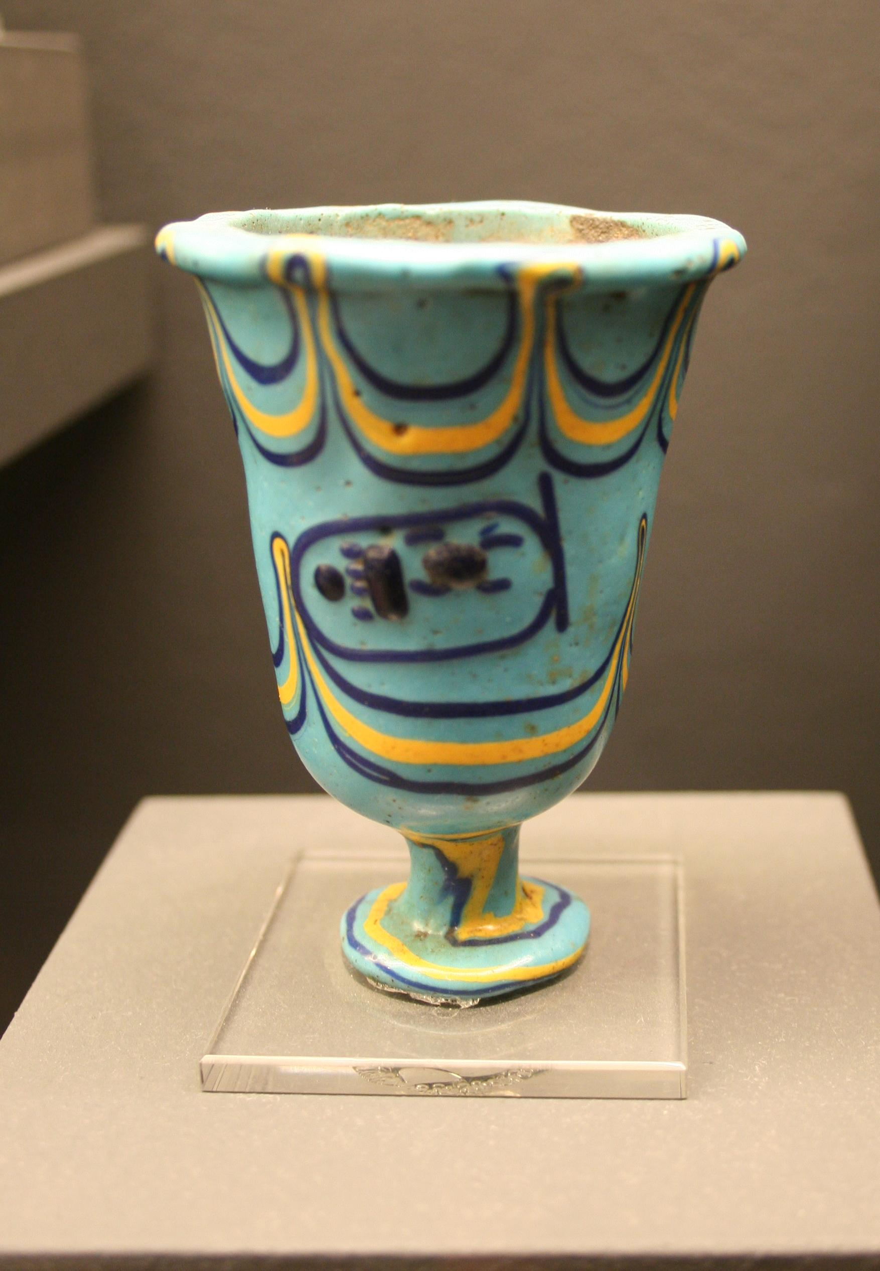 Glass cup with the Name of Pharaoh Thutmosis, Munich Museum.Cartouche: "Men-kheper-Ra"